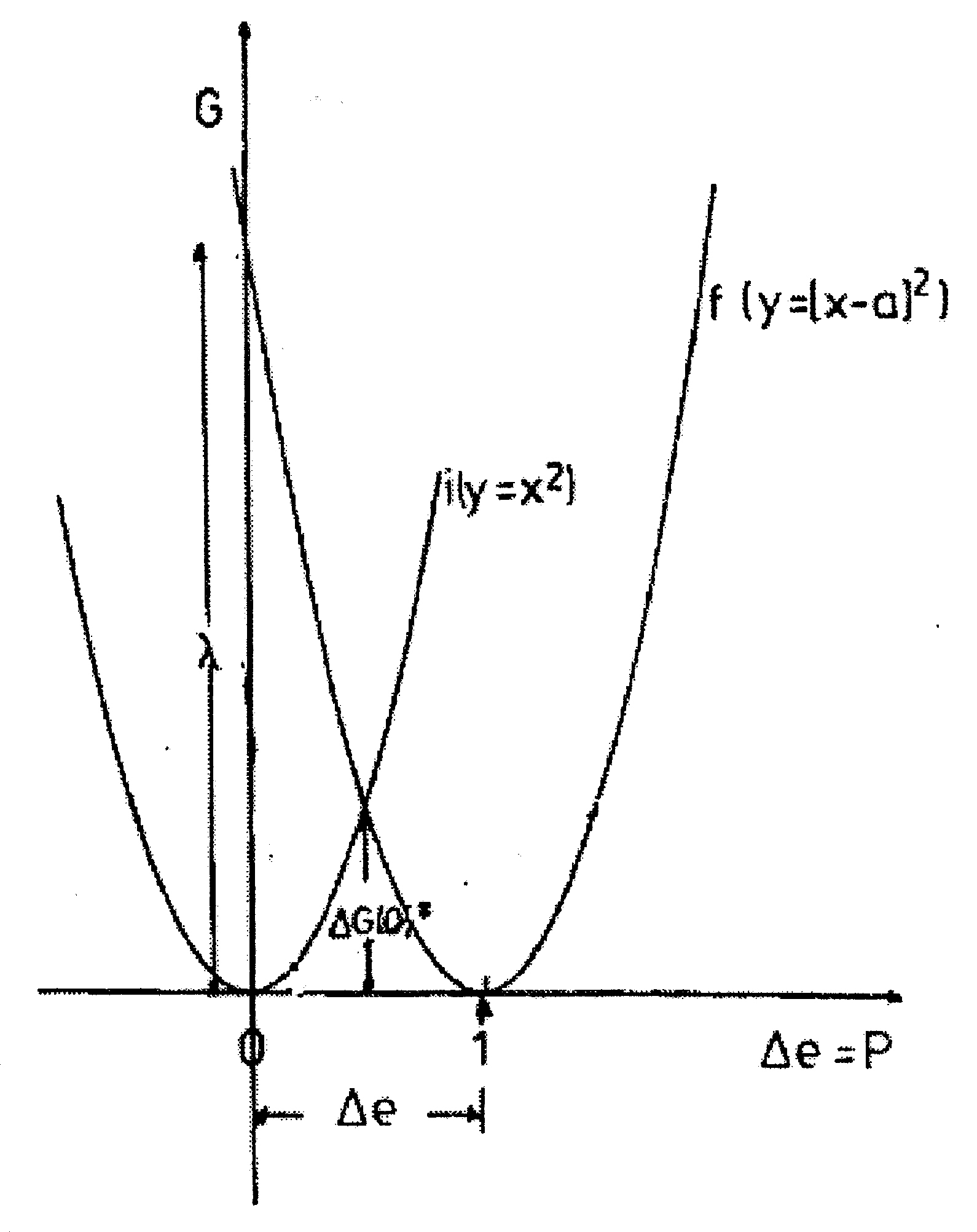 Marcus-parabolas for two conducting spheres